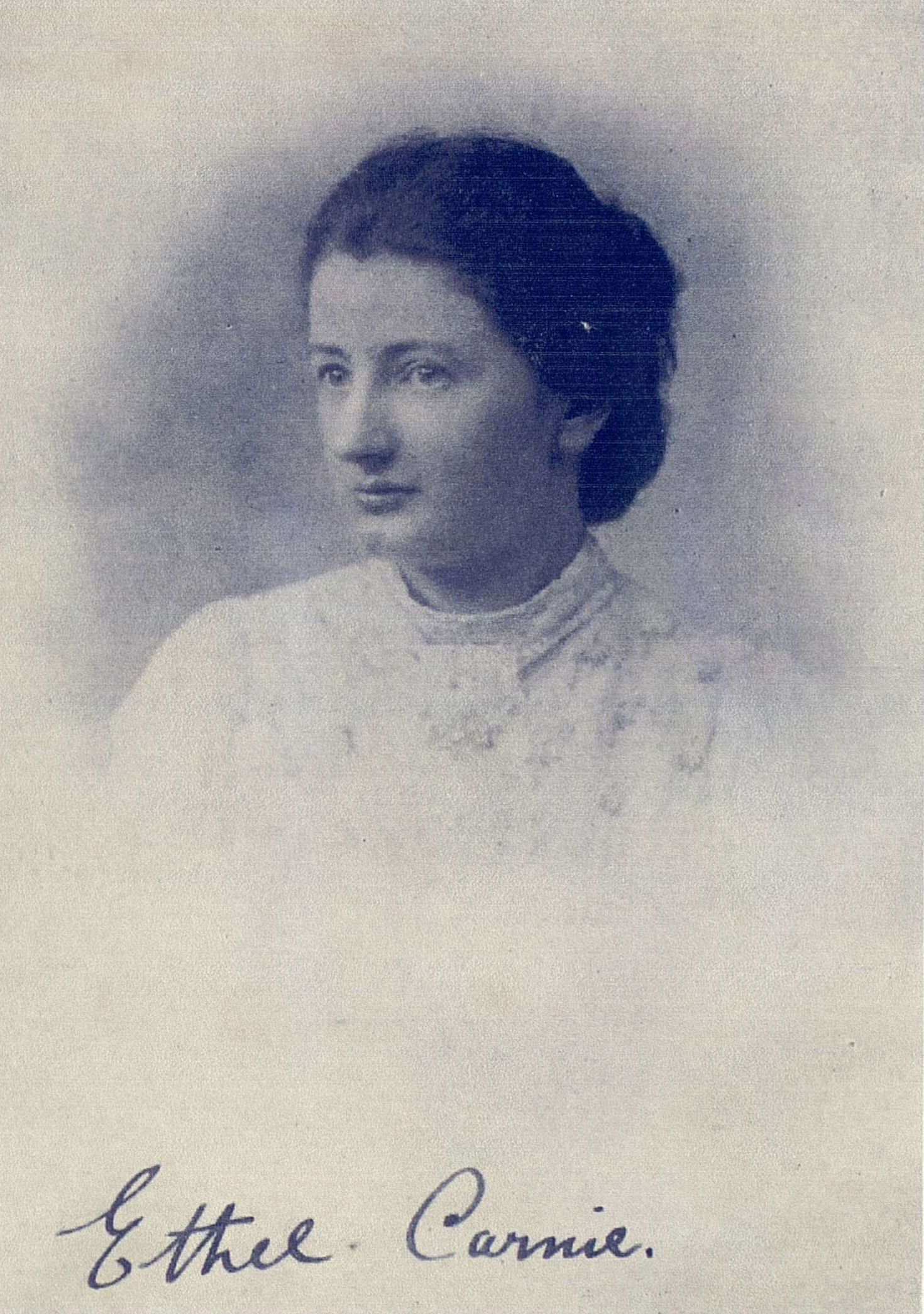 Scanned from 'Rhymes from the Factory' (Blackburn: Denham, 1908)